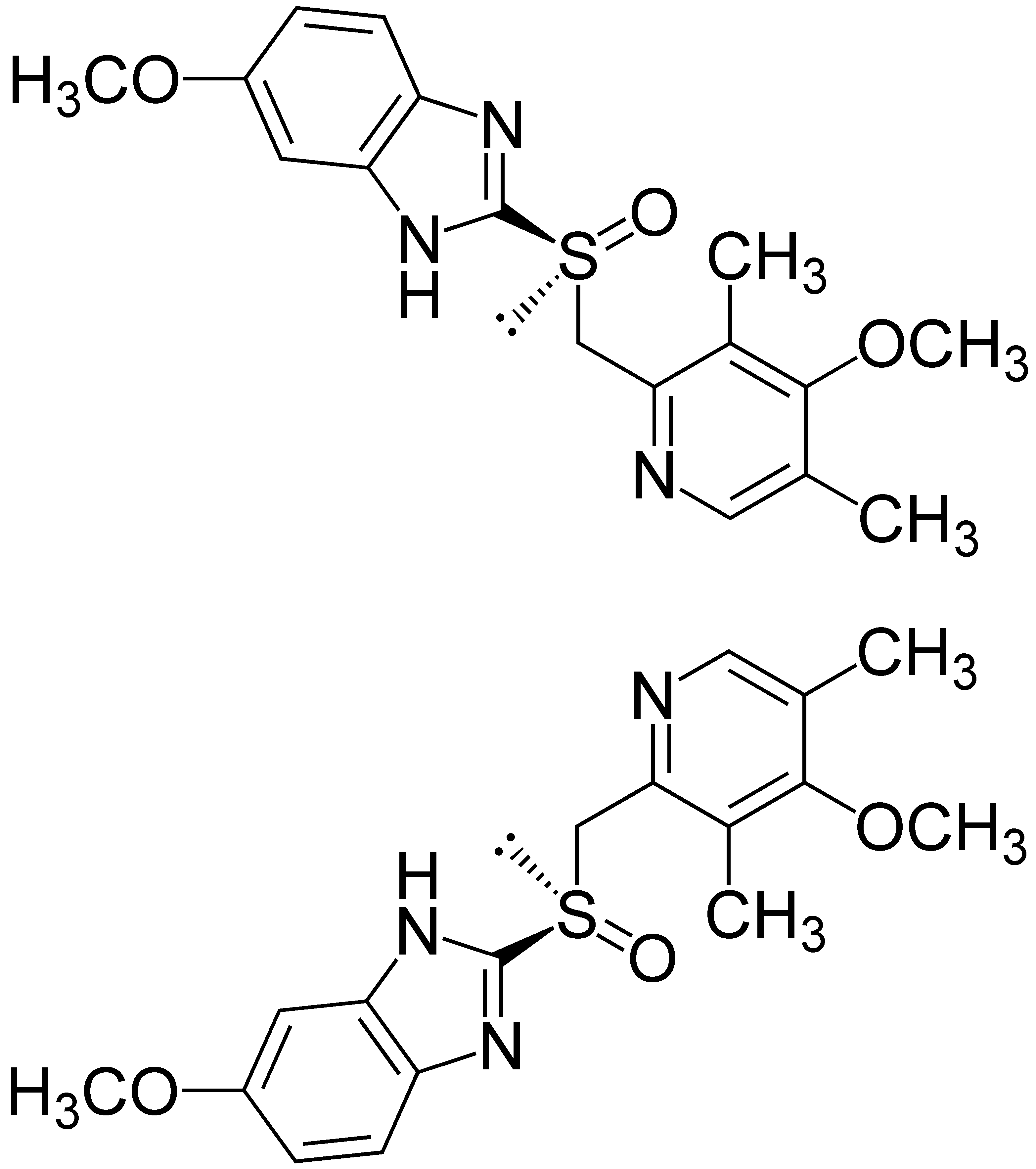 (±)-Omeprazol_Enantiomers_Structural_Formulae